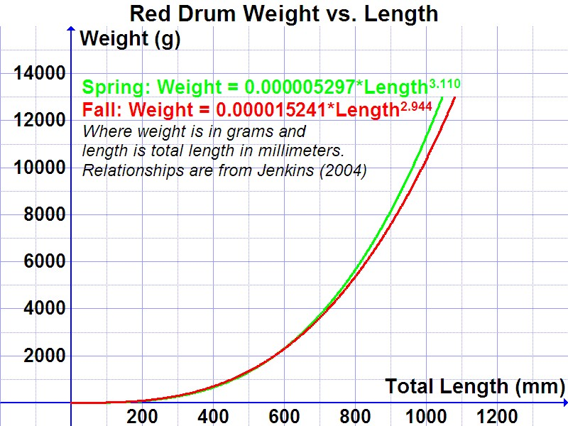 Graph of Weight vs. Length for Red Drum (Sciaenops ocellatus). Data taken from Jenkins J. Fish bioindicators of ecosystem condition at the Calcasieu Estuary, Louisiana. USGS open file report 2004-1323, 2004.